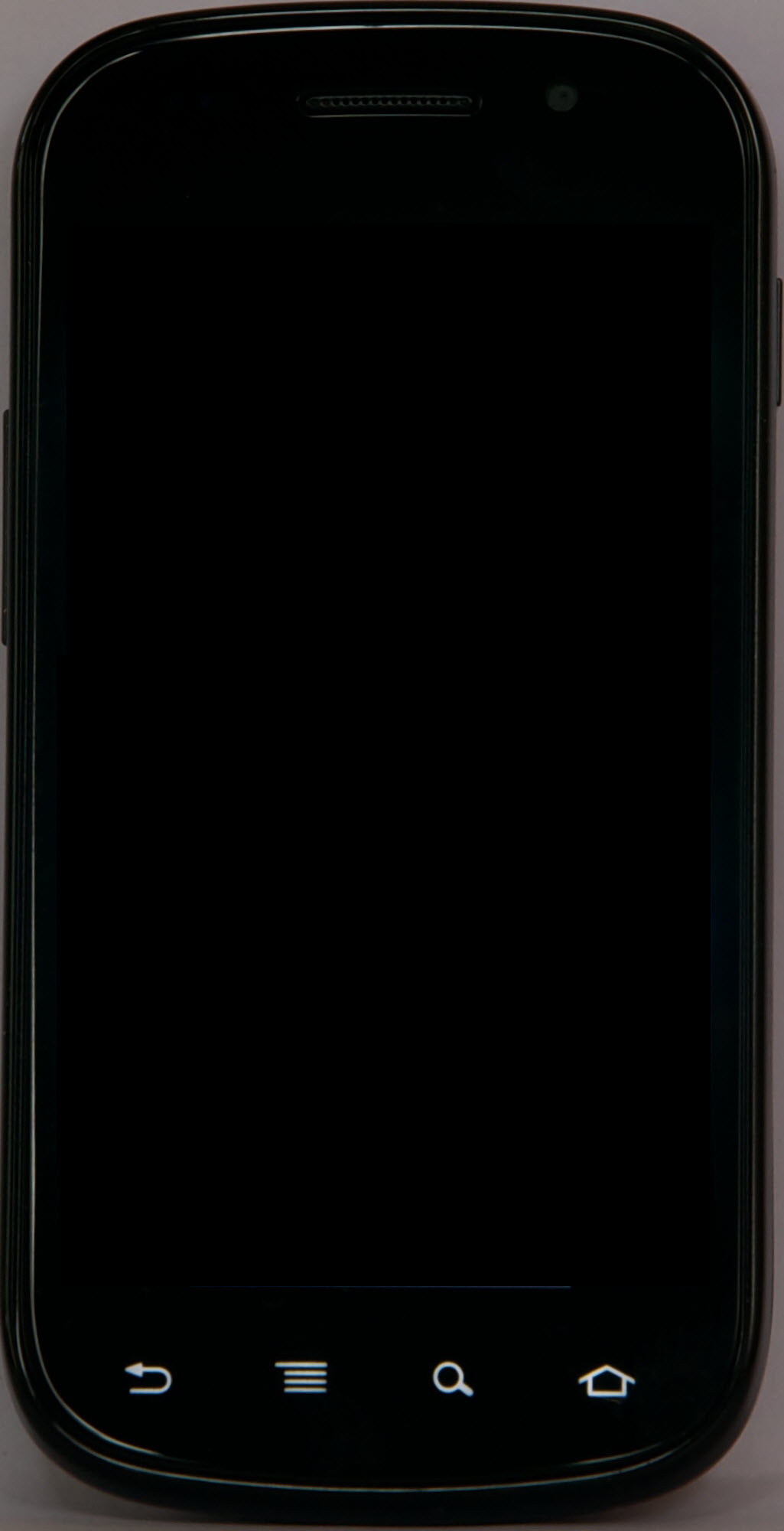 Google Nexus S - Samsung Android Phone